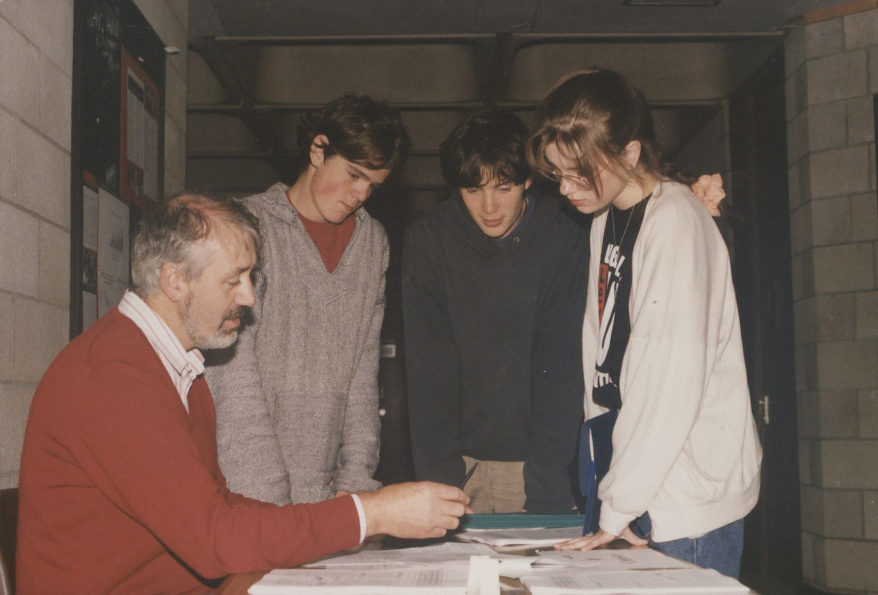 Attending the IUP Career Workshops were from left, Dr Tim Smyth, Dept of Chemical and Life Sciences UL; Eoin O'Sullivan and Cillian Murphy both attending Presentation Brothers College Cork; and Maria-Theresa Grandfield, Donahies Community School Dublin.